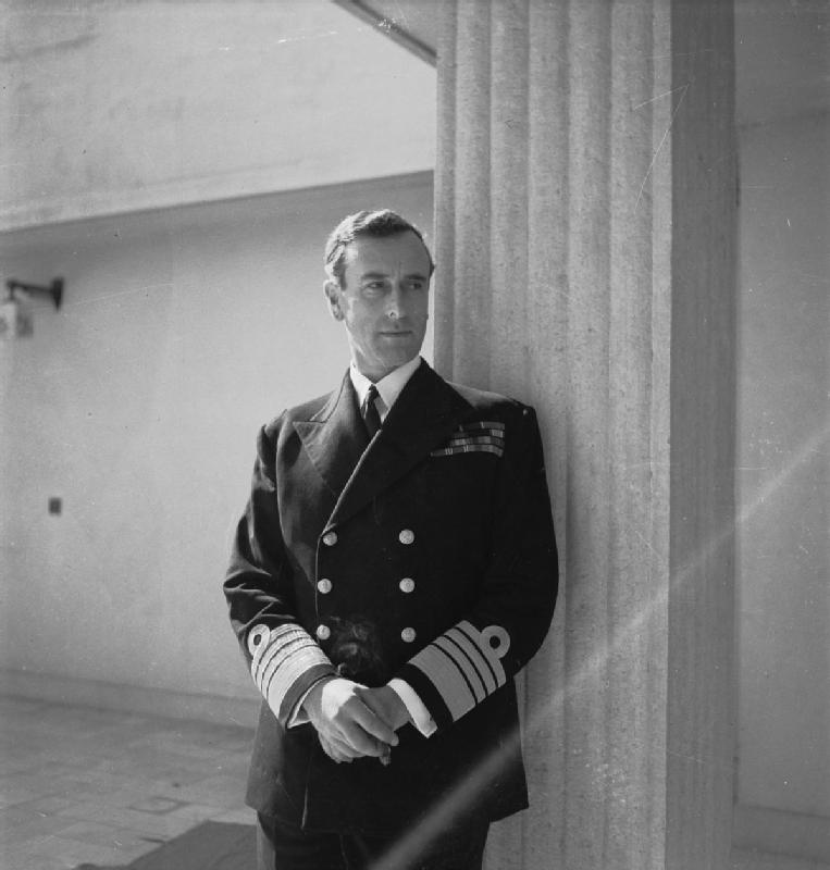 Cecil Beaton Photographs- Political and Military Personalities Military Personalities: Half length portrait of Admiral Lord Louis Mountbatten, Supreme Allied Commander in South East Asia, shown in naval uniform without his hat out of doors.